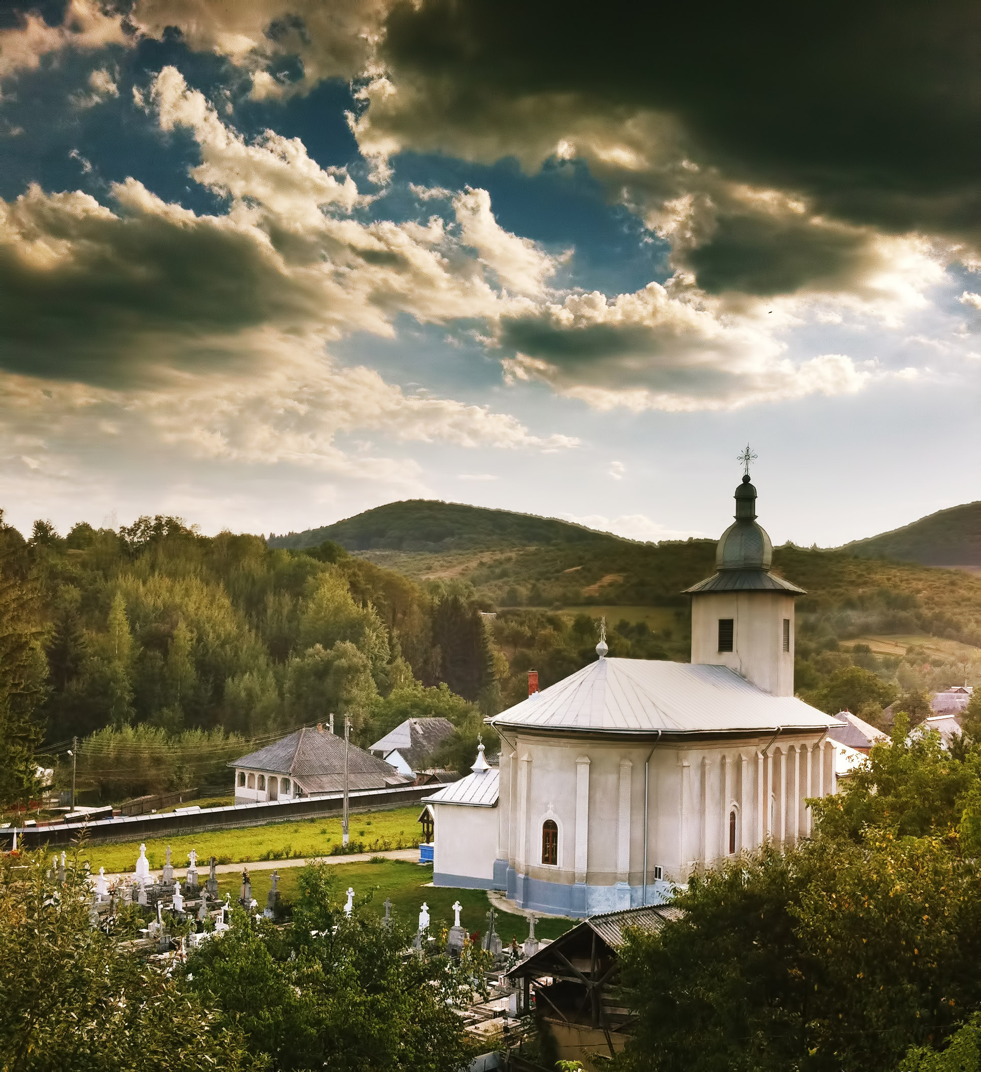 Baltatesti church